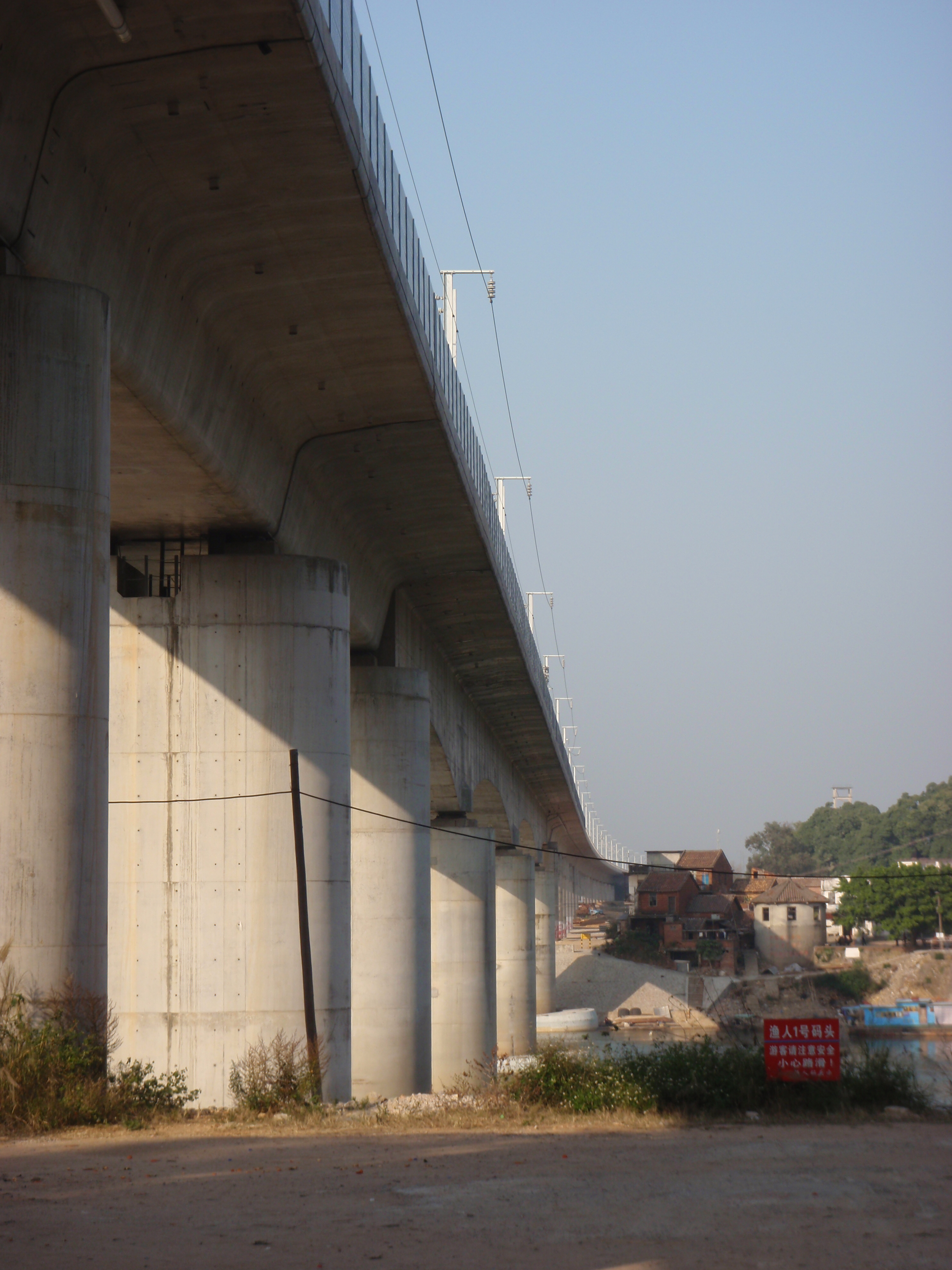 A viaduct of Wuguang Passenger Dedicated Line, China.